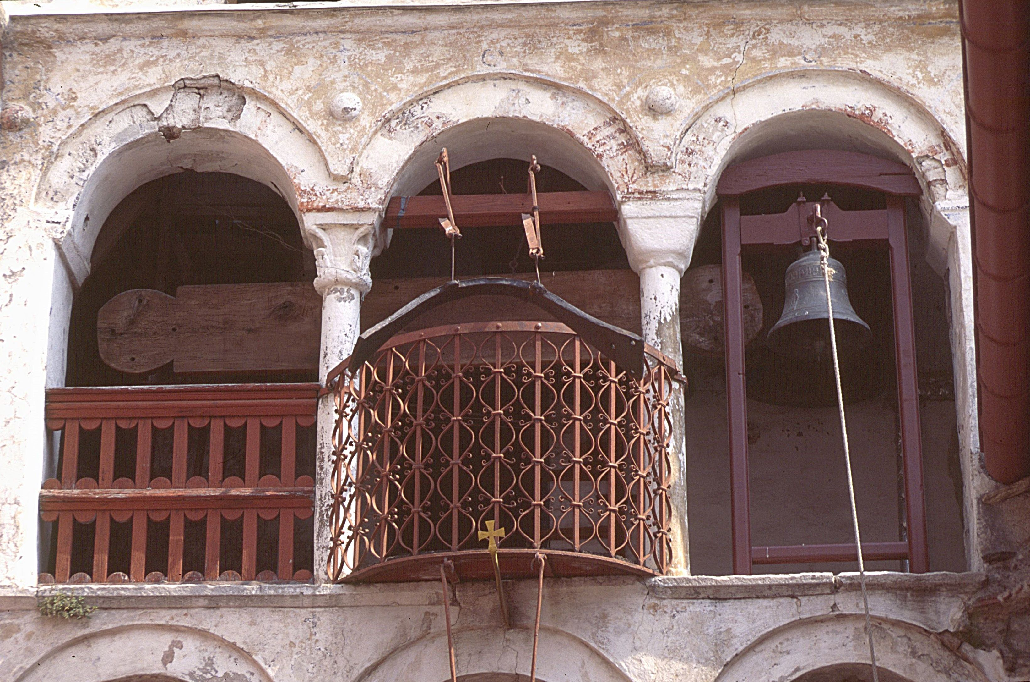 Moni Dionysiou (Athos), Semantron